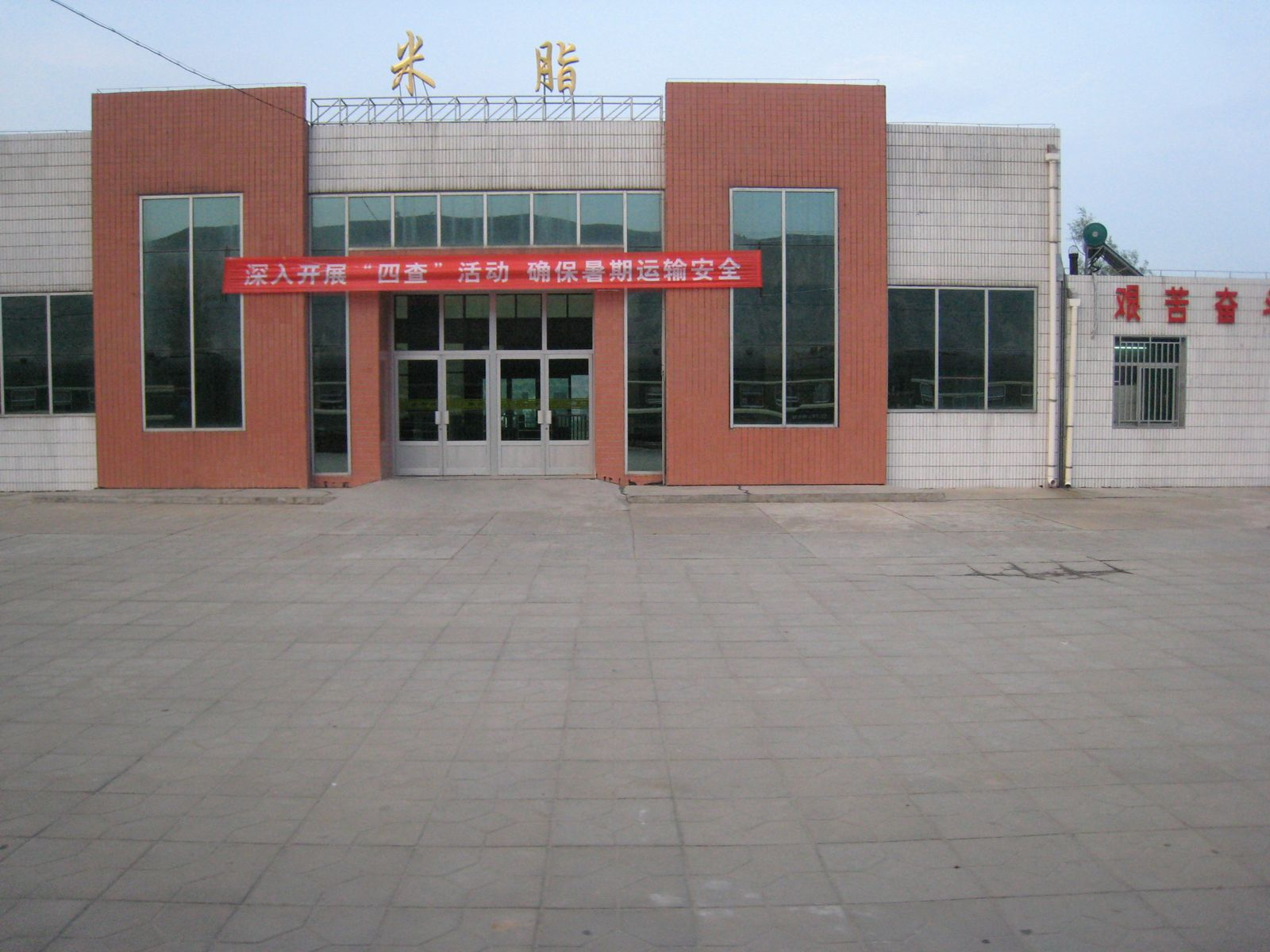 Mizhi Railway Station